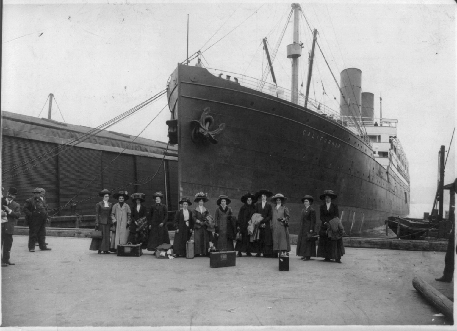 Title: "June brides". Arrival from England of 12 brides-to-be whose fiancees are awaiting them here Abstract/medium: 1 photographic print.